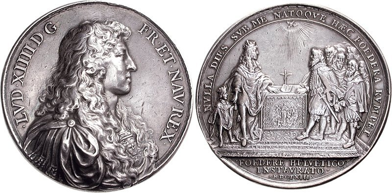 France, Royal. Louis XIV de France, le Roi Soleil (the Sun King). 1643–1715. AR Medal (77.70 g, 12h). Commemorating alliance with the Swiss. J. Warin, engraver. Dated 1663. • LVD • XIIII • D • G • FR • ET • NAV • REX •, draped bust right NVLLA DIES SVB ME NATOQVE HÆC FOEDERA RVMPET, king and dauphin, to left, meeting Swiss envoys, to right, over ornate altar; radiating dove flying from sky above; • FOEDERE HELVETICO • / INSTAVRATO • / • MDCLXIII • in three lines below altar. Haller 75; Wunderly 3477. VF, toned, minor field marks. From the Collection of a California Gentleman. Ex G. Hirsch 199 (6 May 1998), lot 2250.